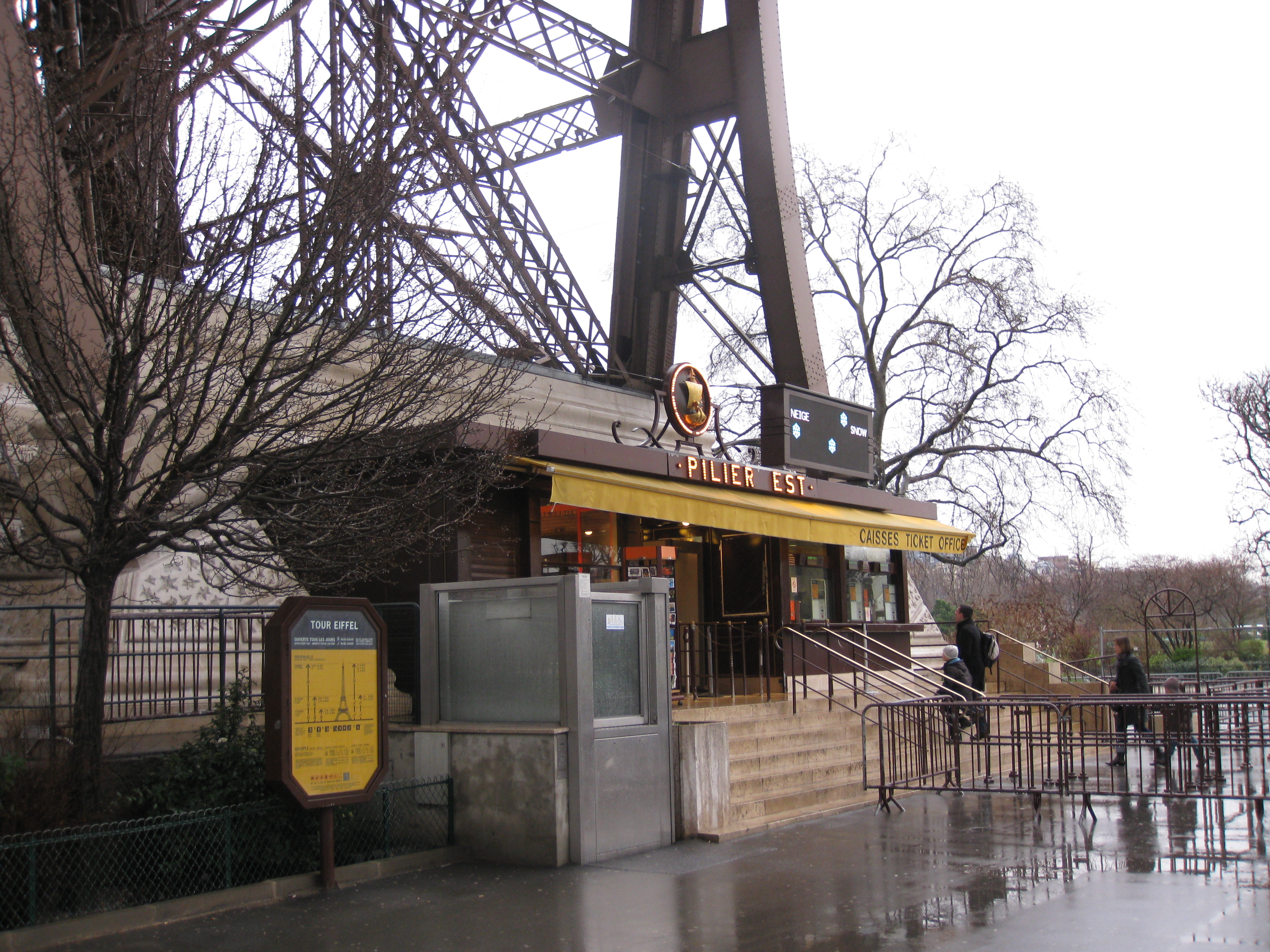 Base of Tour Eiffel